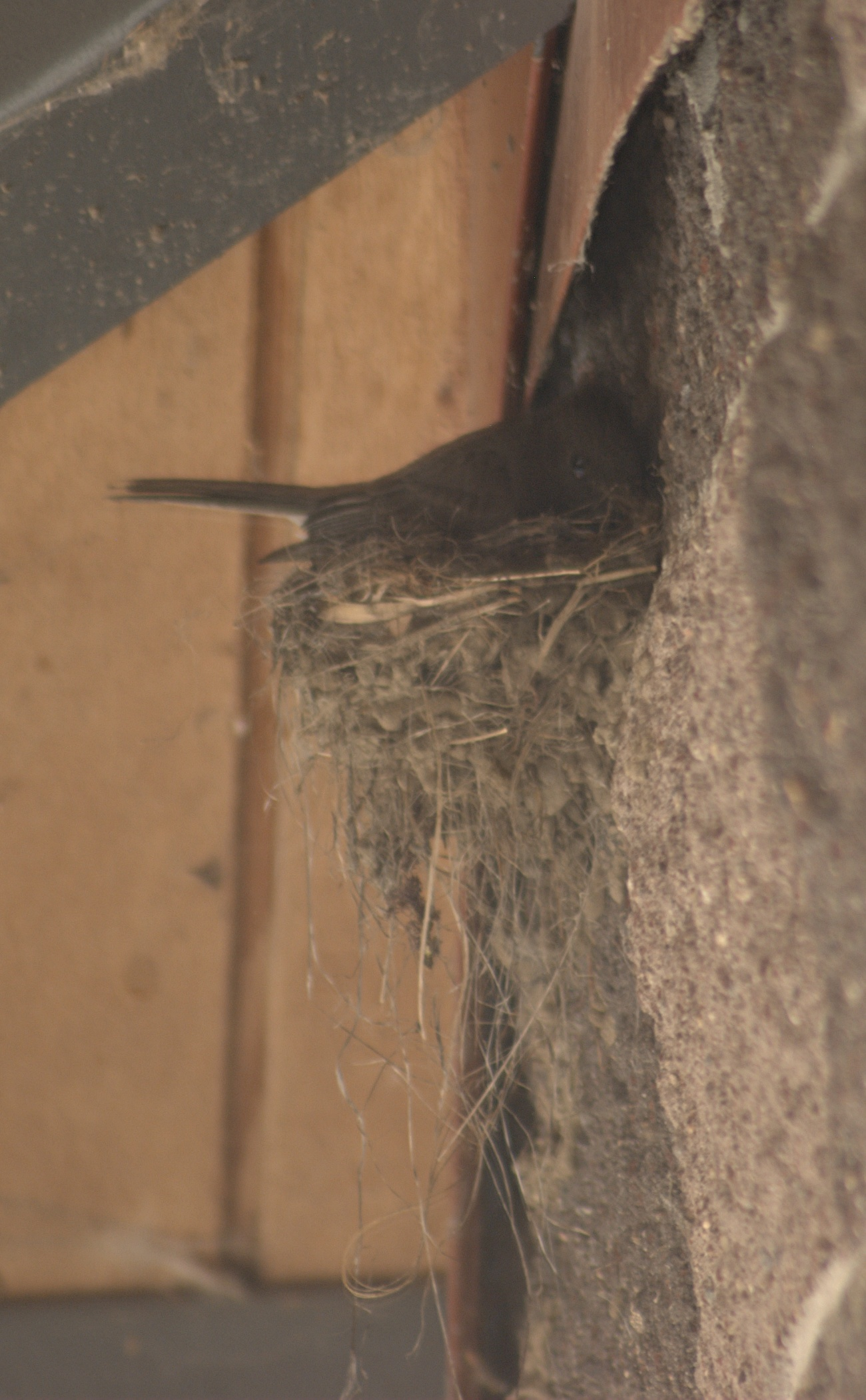 Black Phoebe, Sayornis nigricans, on its nest attached to a wall in a campground in the Orilla Verde Recreation Area, Taos County, New Mexico.